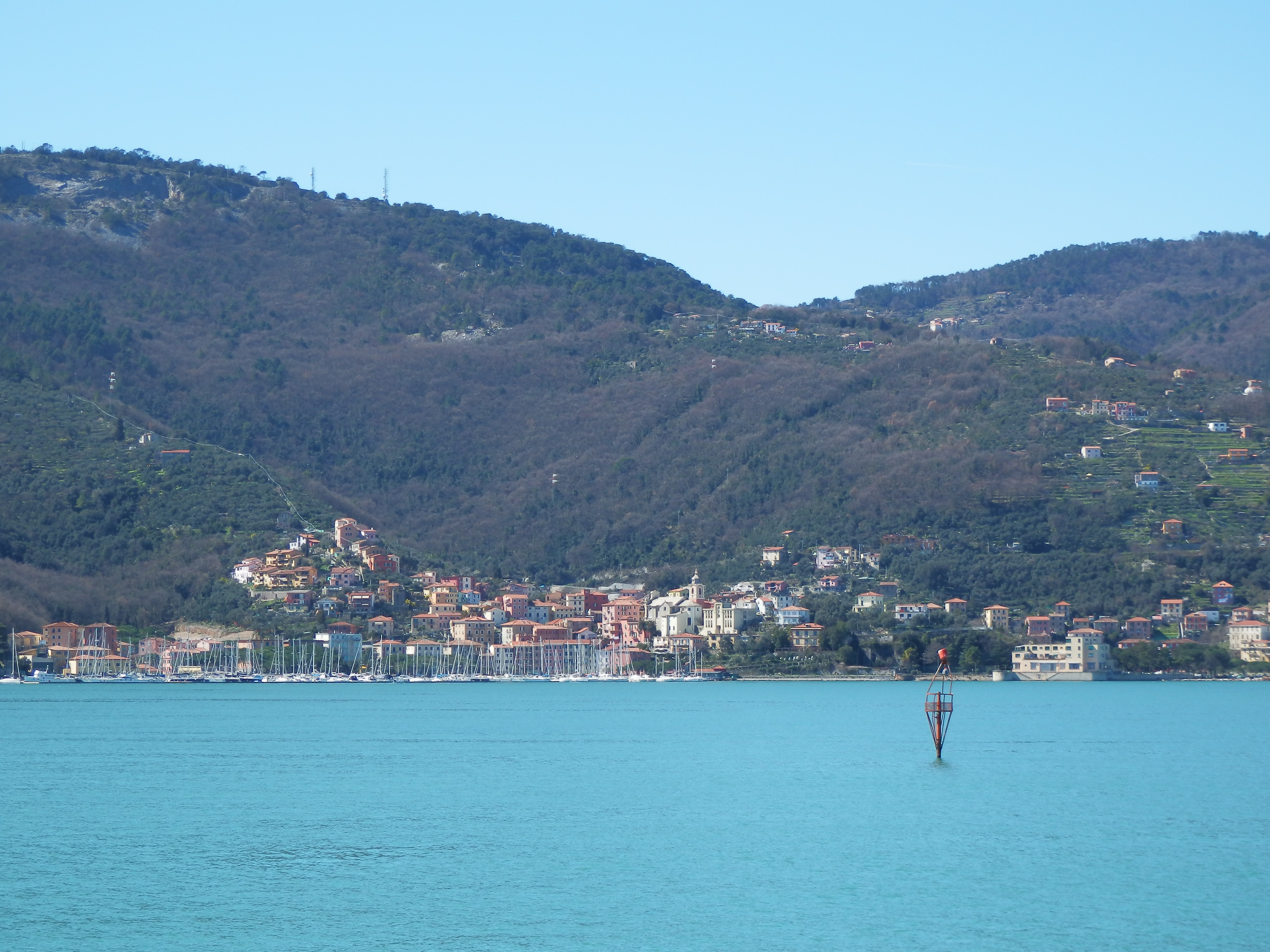 View of Fezzano from the gulf of La Spezia.